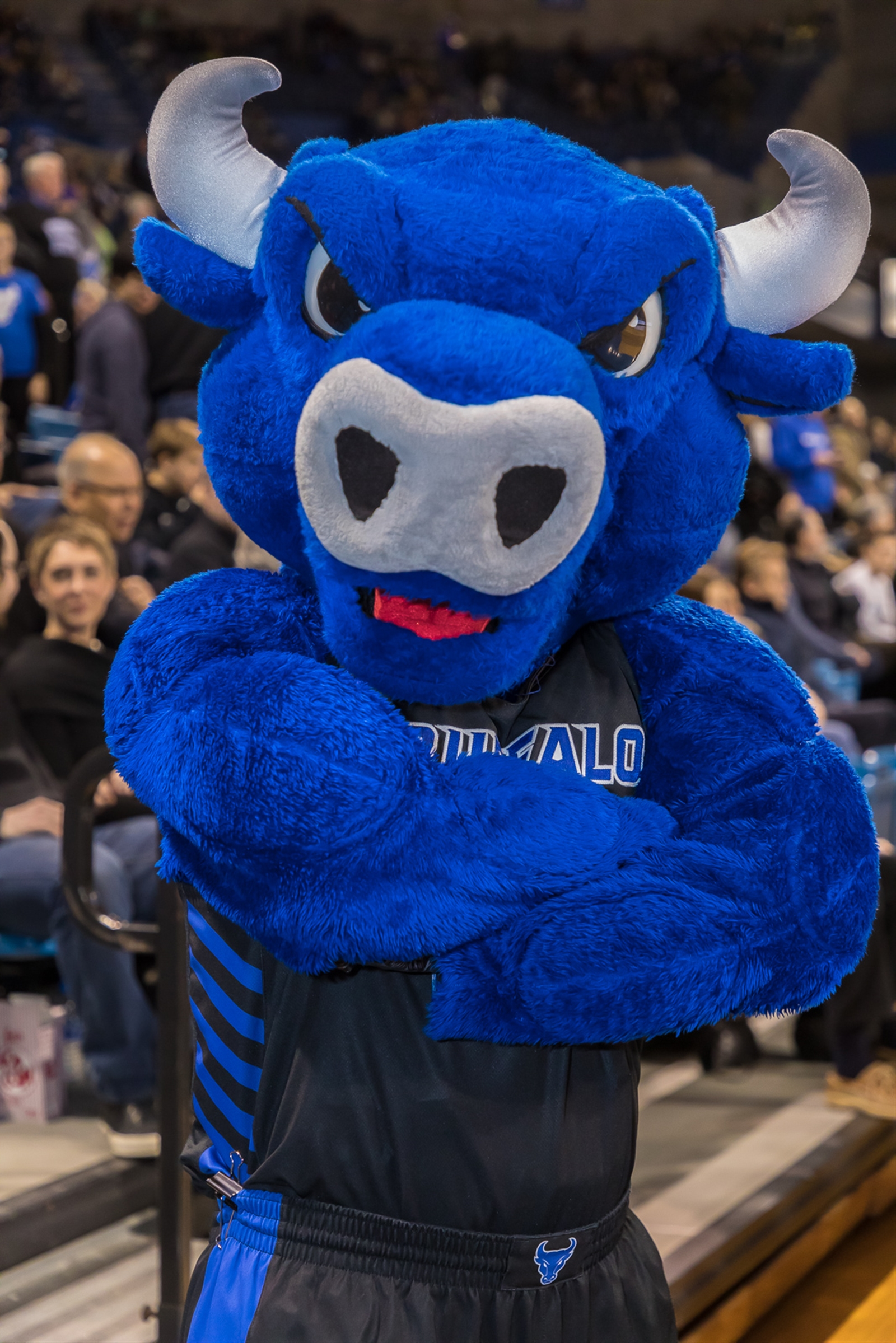 The University at Buffalo's mascot, Victor E. Bull, poses in his "blackout" uniform at a college basketball game between The University at Buffalo and Kent State at their annual blackout game.